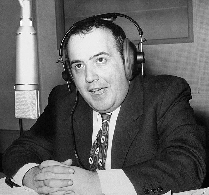 Italian journalist and TV host Maurizio Costanzo presenting the radio show Buon Pomeriggio. 1972.